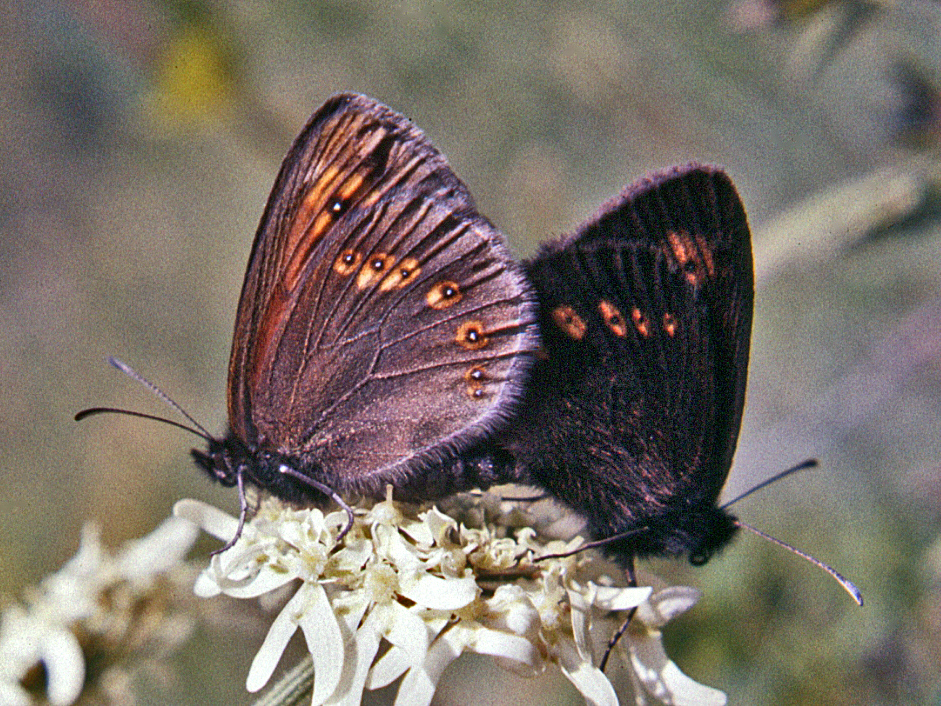 Erebia alberganus, mating pair. La Thuile, Aosta, Italy